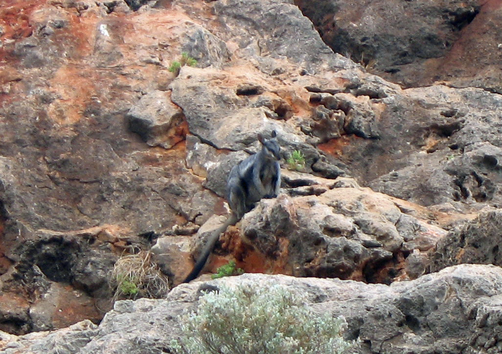 Black Footed Rock Wallaby